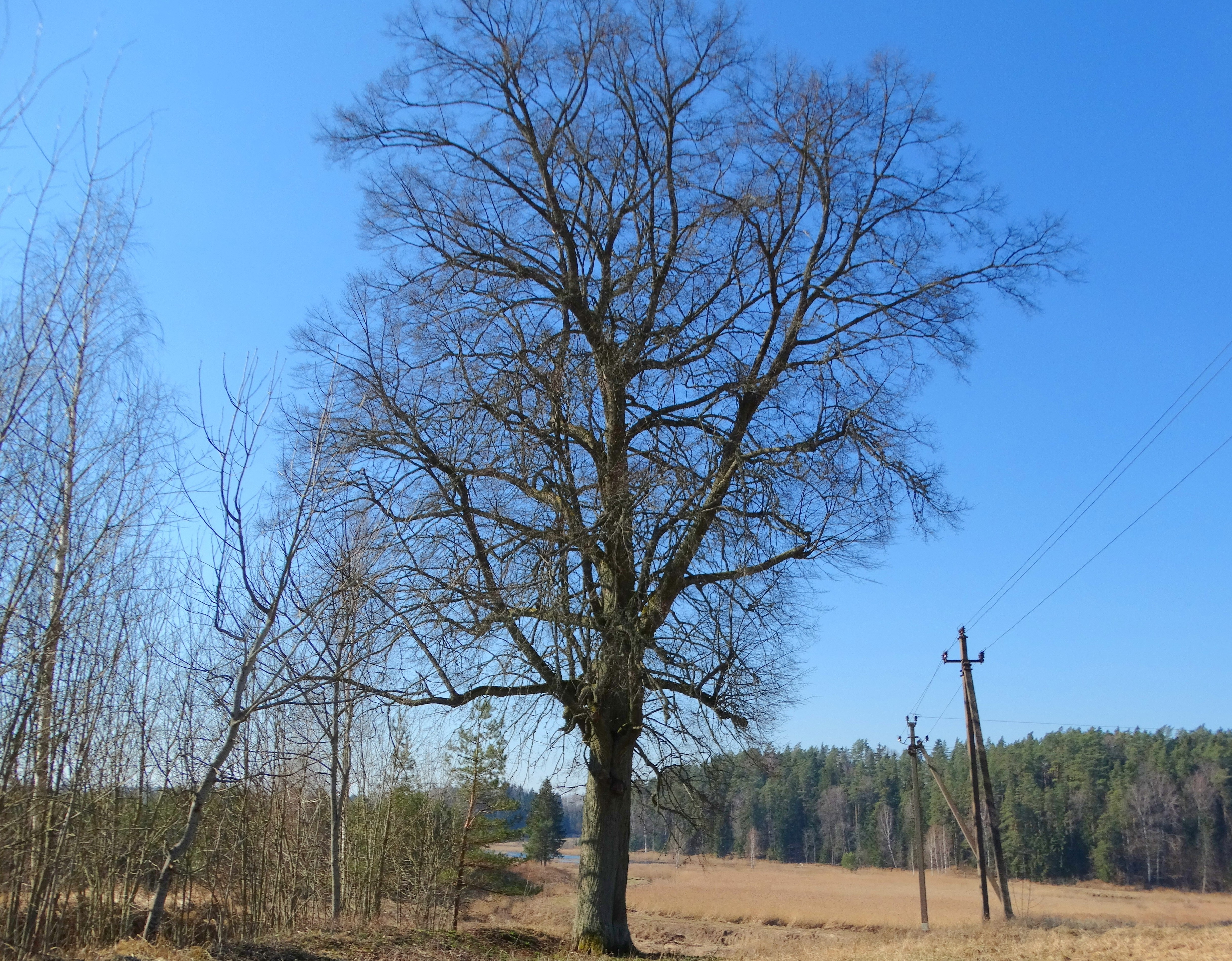 Linden tree, Zuikiškė, Šiauliai district, Lithuania